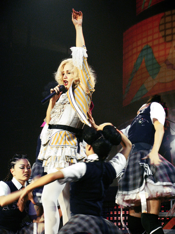 Gwen Stefani performing "Harajuku Girls" in Duluth, Georgia, United Statesamerican girl in the tokyo street